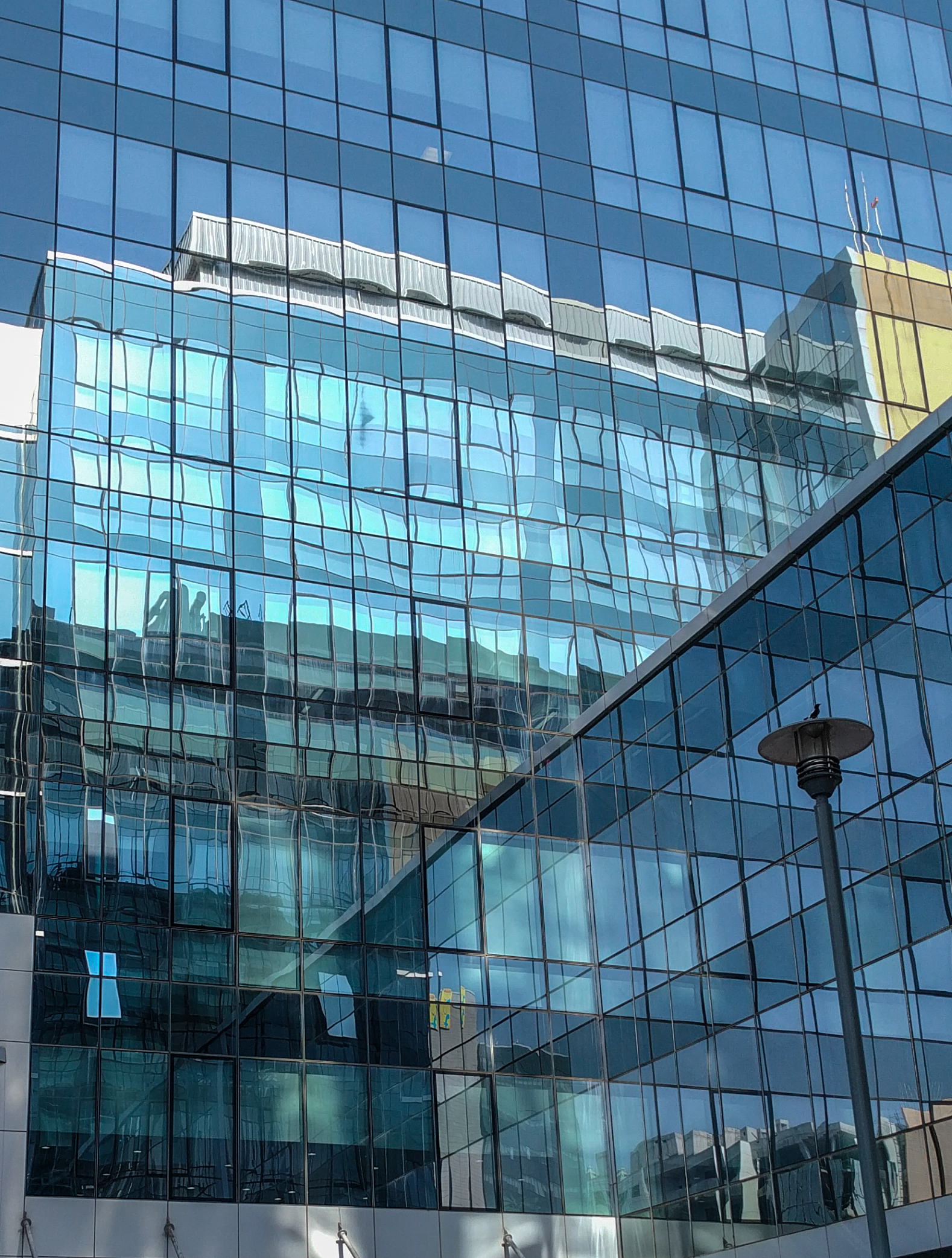 Cisco Systems